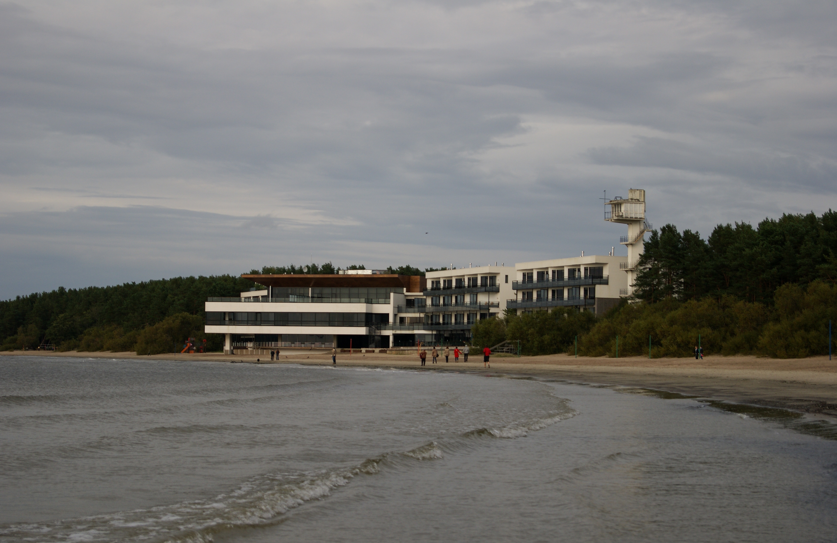 Pirita beach in Tallinn